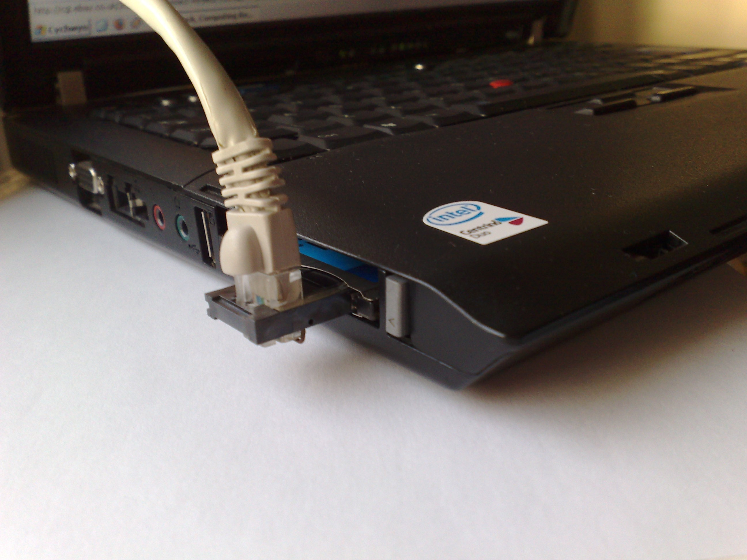 A 3Com 3CXFE575CT 10/100Mbps network card with an XJACK connector, inserted in the Cardbus slot of a Lenovo Thinkpad R60e, with a network cable plugged in